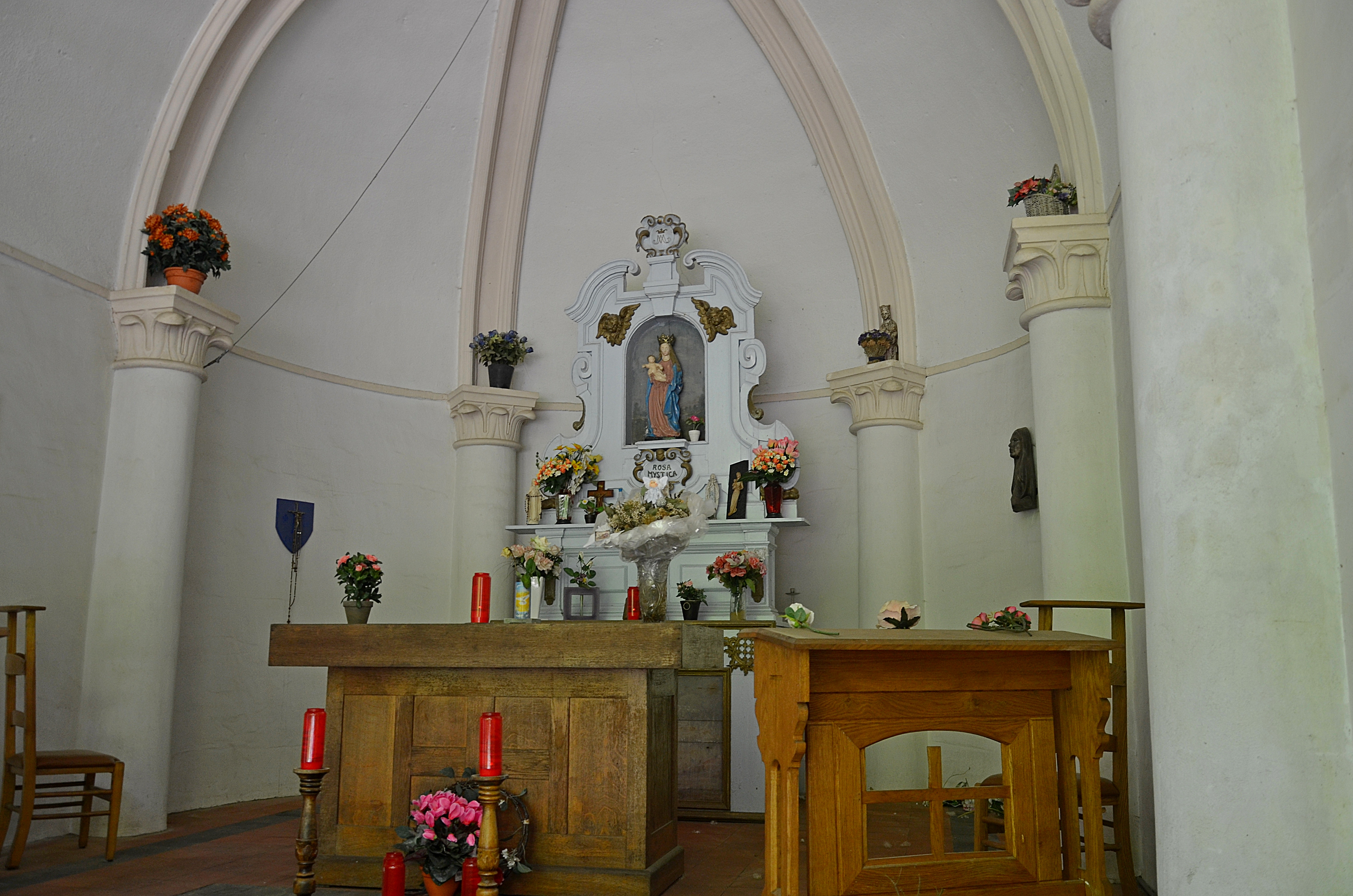 This photo of immovable heritage has been taken in the Flemish Region